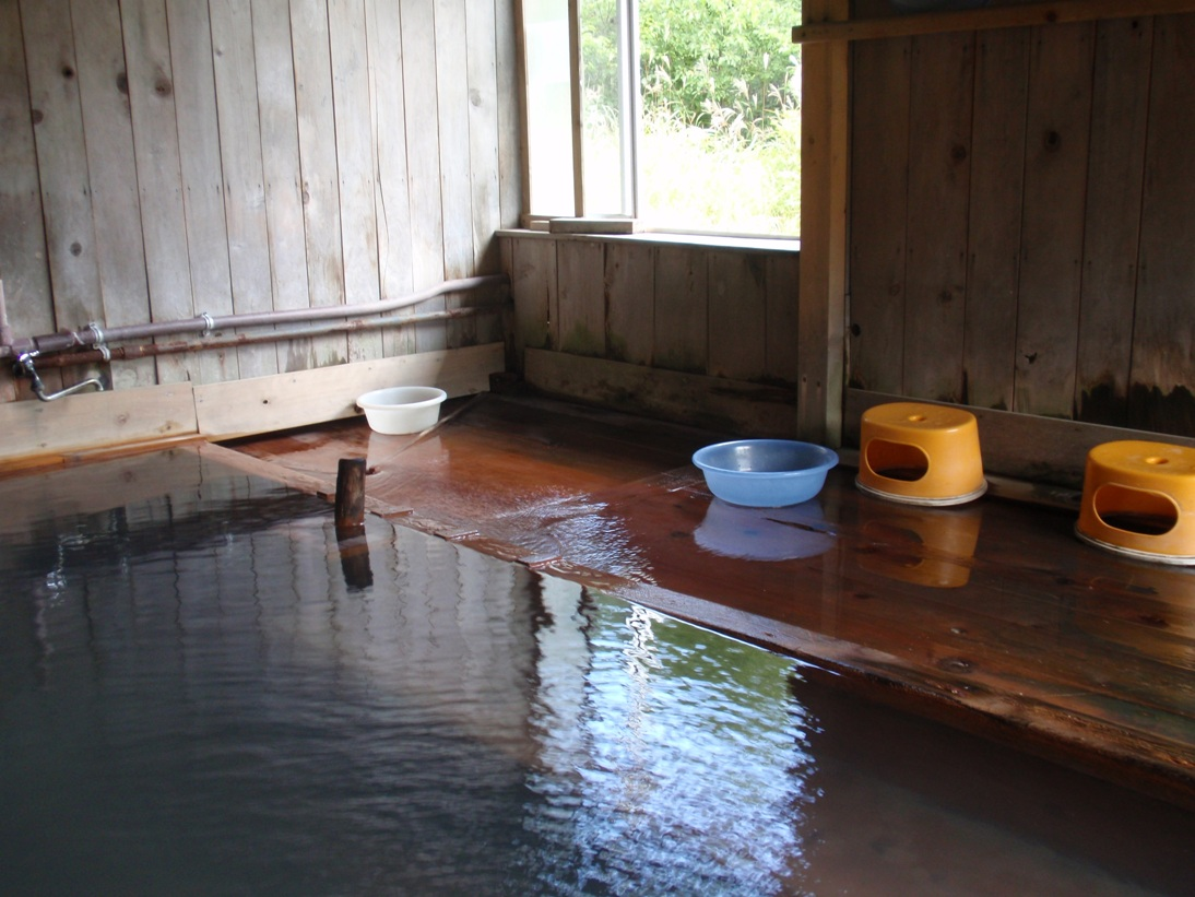 Takinoue Onsen in Shizukuishi, Iwate.